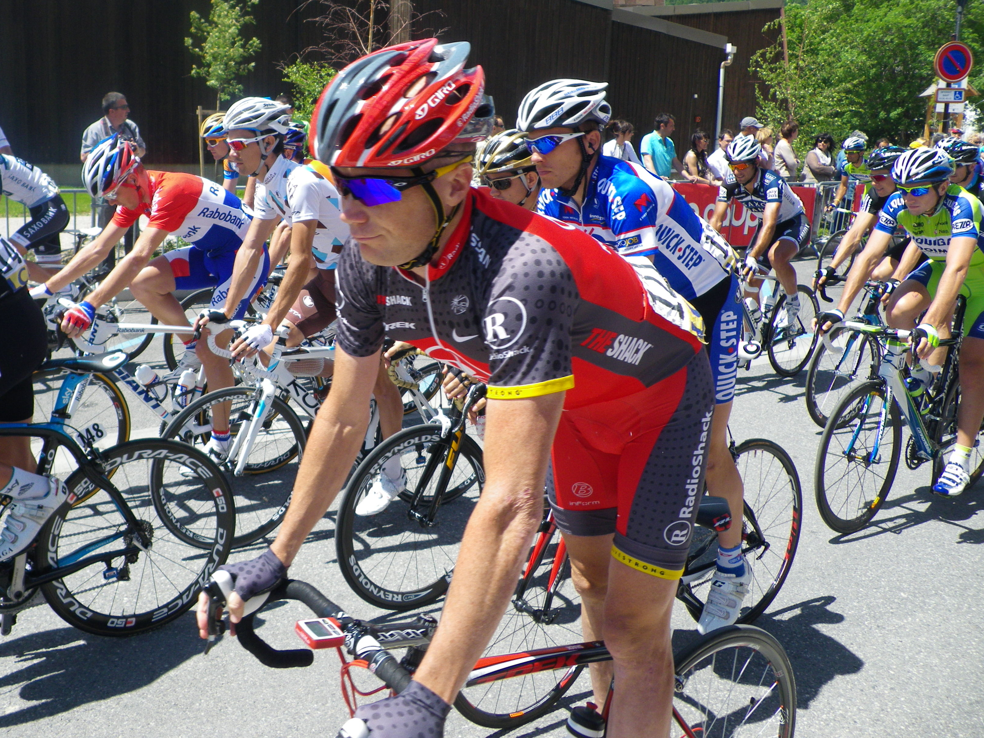 Christopher Horner, road bicycle racer. Serre Chevalier. Critérium du Dauphiné Libéré 2010.